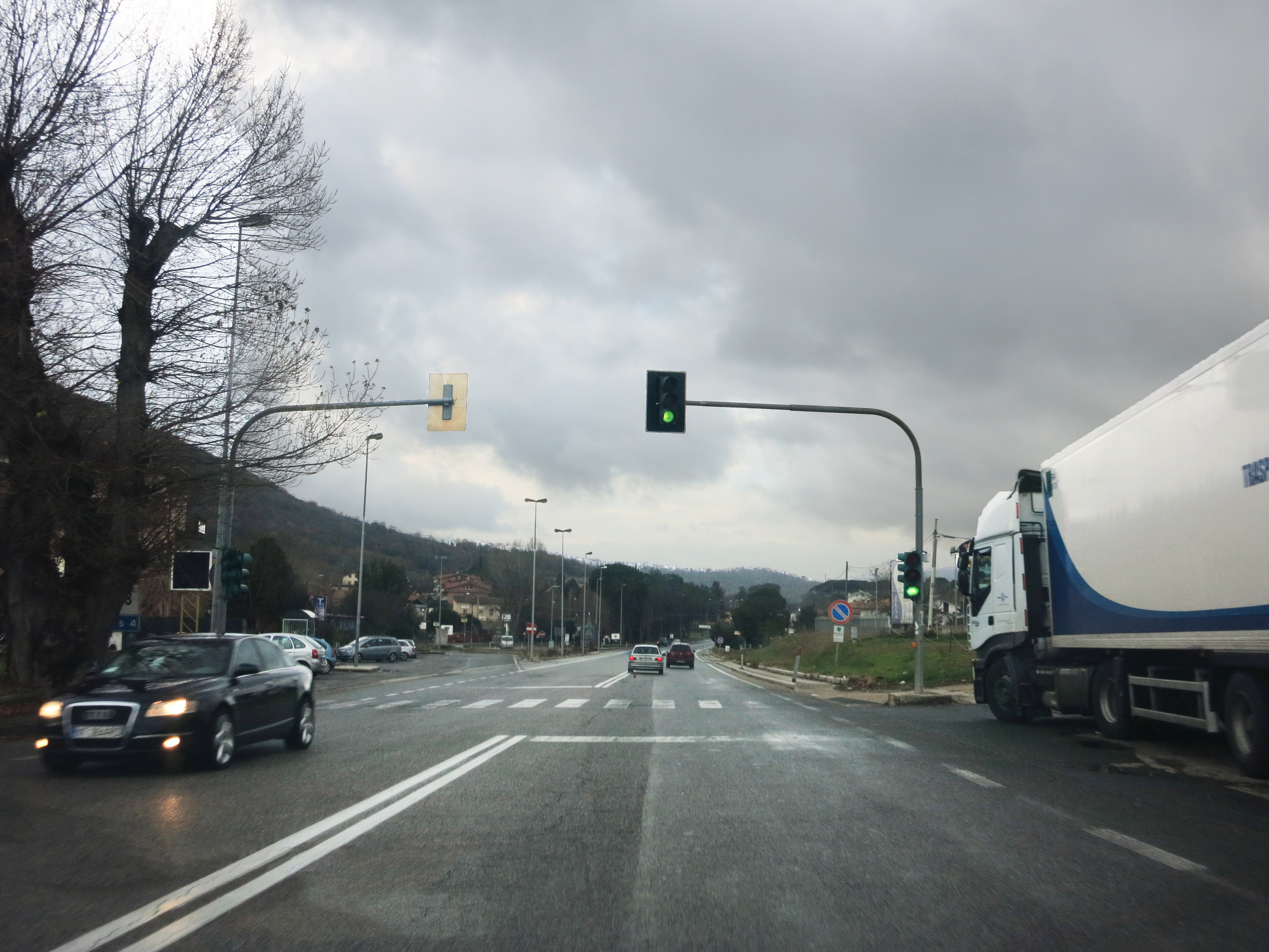 Italian State Road n. 4 Via Salaria, lane heading to Rome